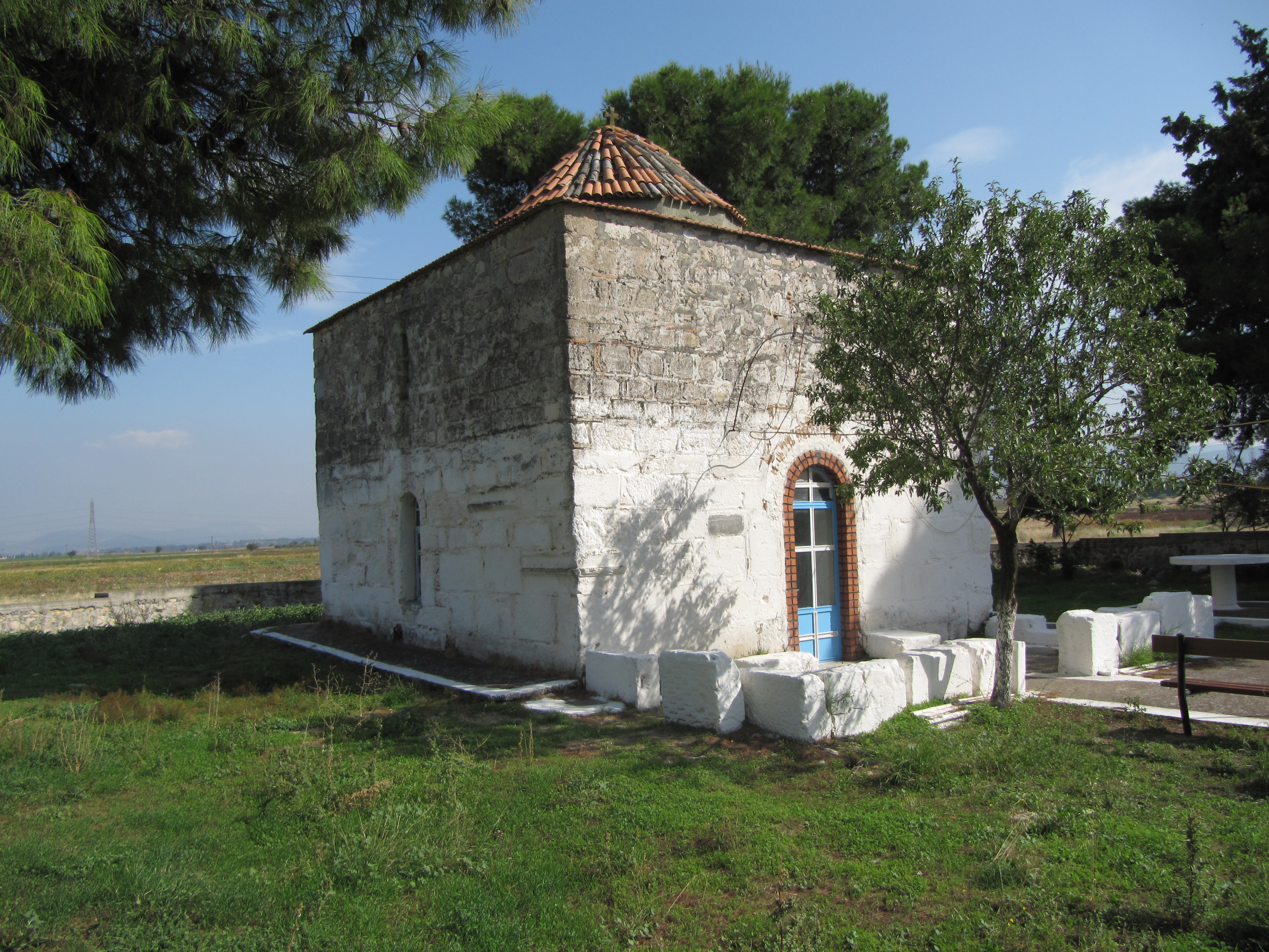 Agios Thomas chapel in Viotia prefecture. Central Greece.